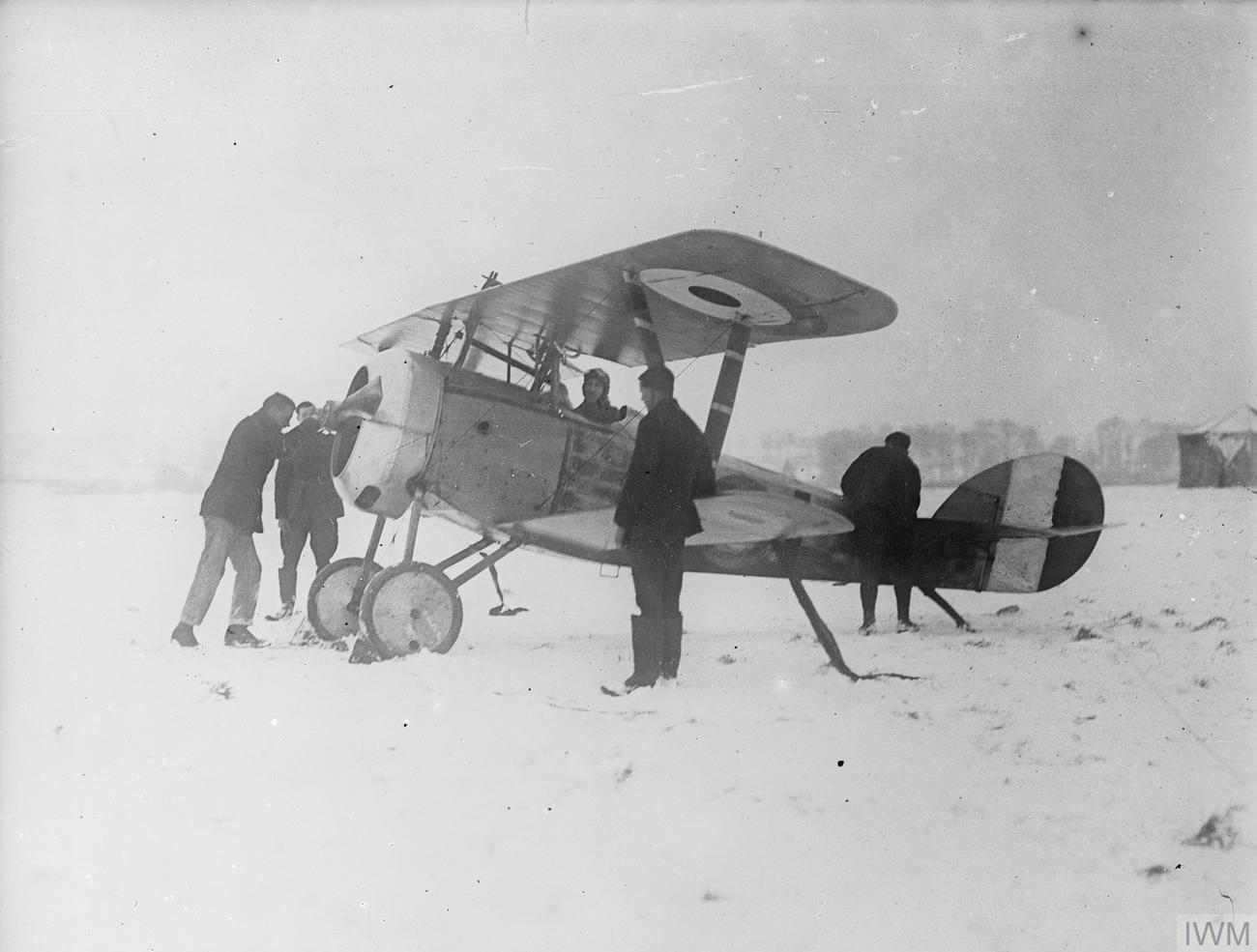 The Royal Flying Corps on the Western Front, 1914-1918 A Nieuport Scout biplane ready to take off in the snow at Bailleul Aerodrome, 27 December 1917. It's possibly No. 1 Squadron RFC.